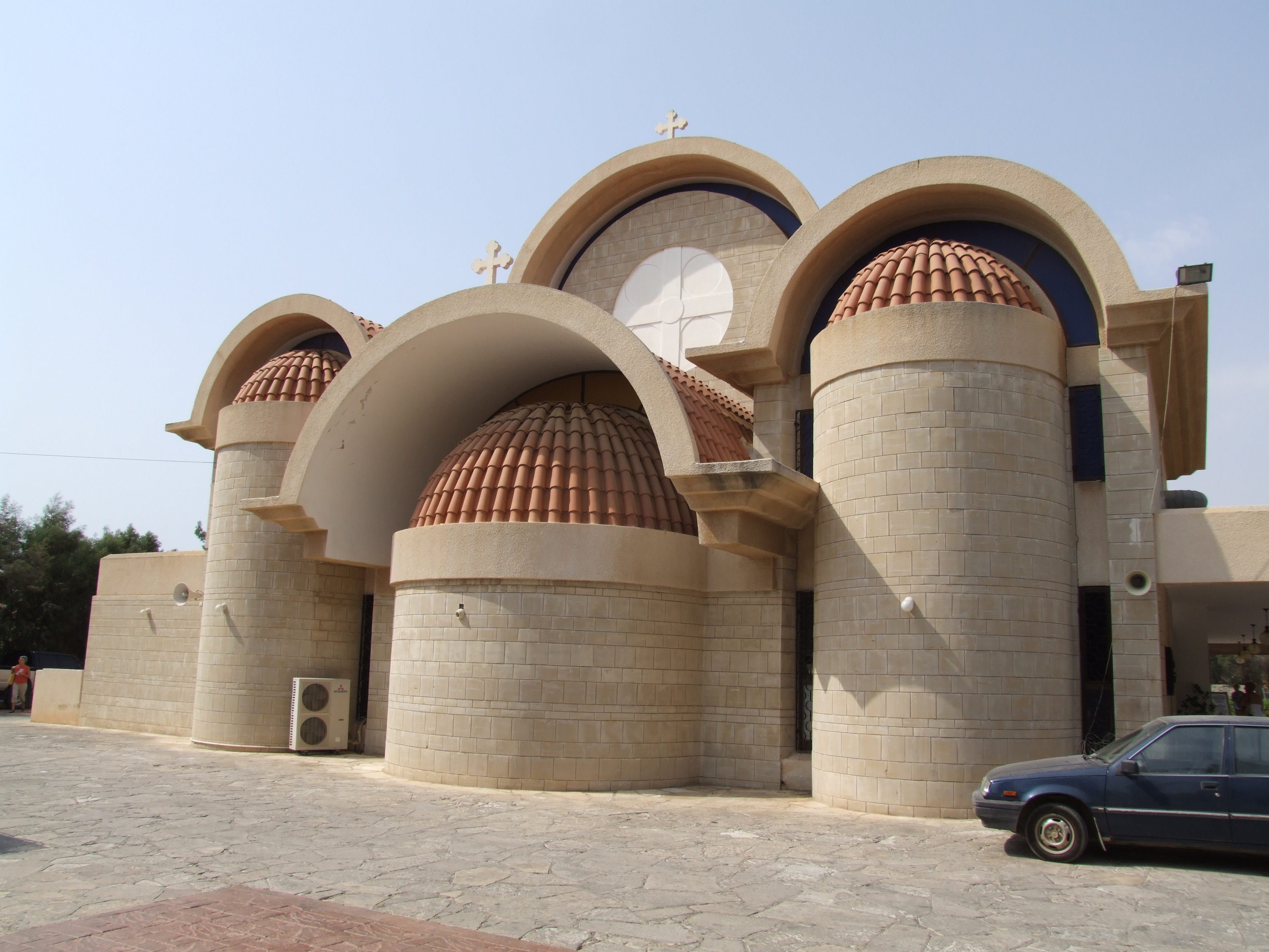 St. Mary's Church of Ayia Napa and the surrounding area with old trees